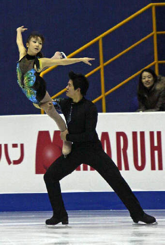 Narumi Takahashi & Mervin Tran (JPN), a pairs team, perform an ice dancing lift as part of their choreography (not as an element) during their free skating program at the 2008-2009 Junior Grand Prix Final. They placed 7th in this segment of the competition and 7th overall.